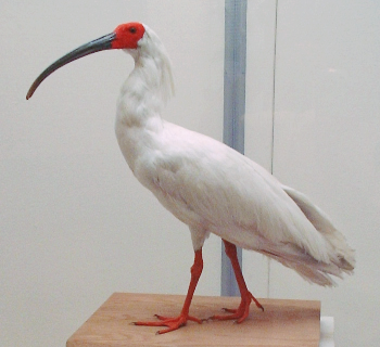 This is a taxidermy of crested ibis. Real eyes are orange. Binomial: Nipponia nippon (Temminck, 1835)